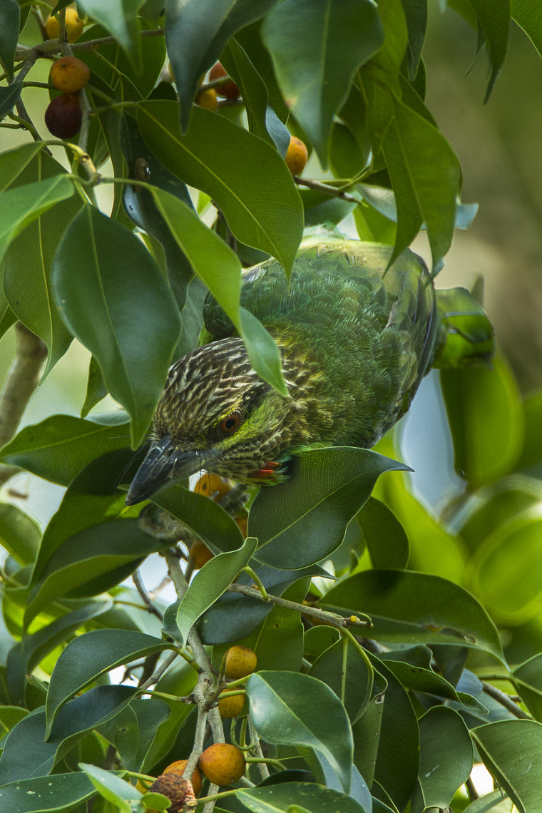 Green-eared Barbet - Thailand_S4E7991